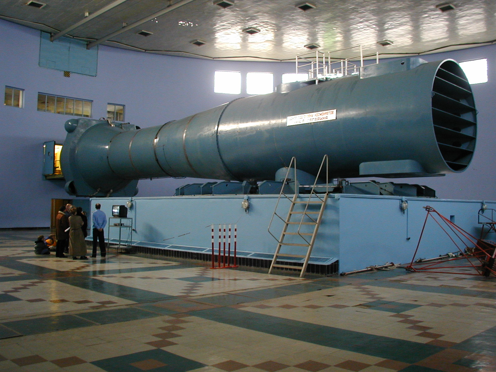 Author: Harald Illig Source: I took this picture in October 2000. URL: Distribute freely, Please give reference as